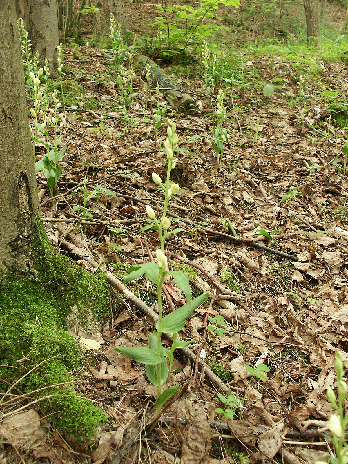 Cephalanthera damasonium, Hohenloher Land, Germany